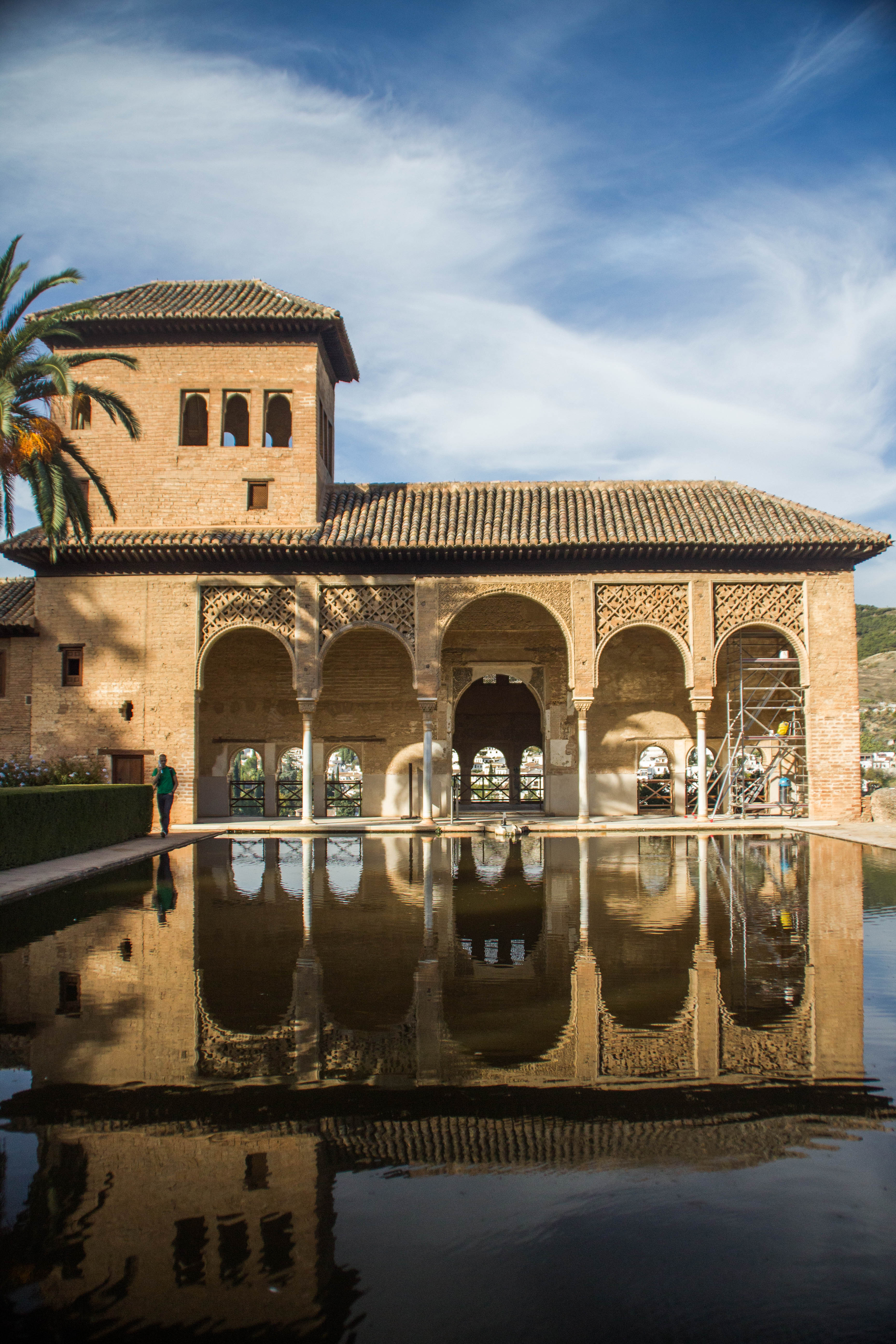 View of the Portico and the nearby pool with its relfection on the water.